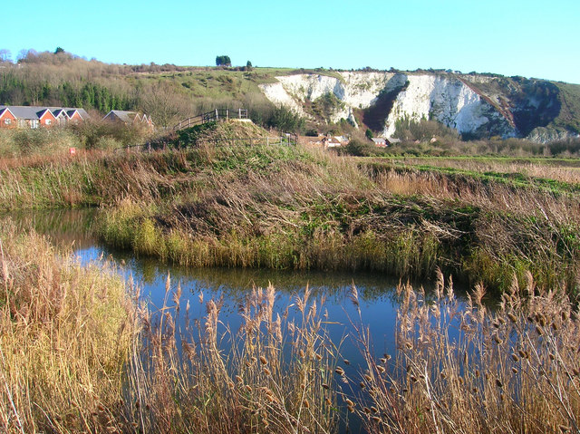 Heart of Reeds, Lewes Railway Nature Reserve A landscaped area of reeds within the nature reserve to attract wildlife designed by Chris Drury. for more details.